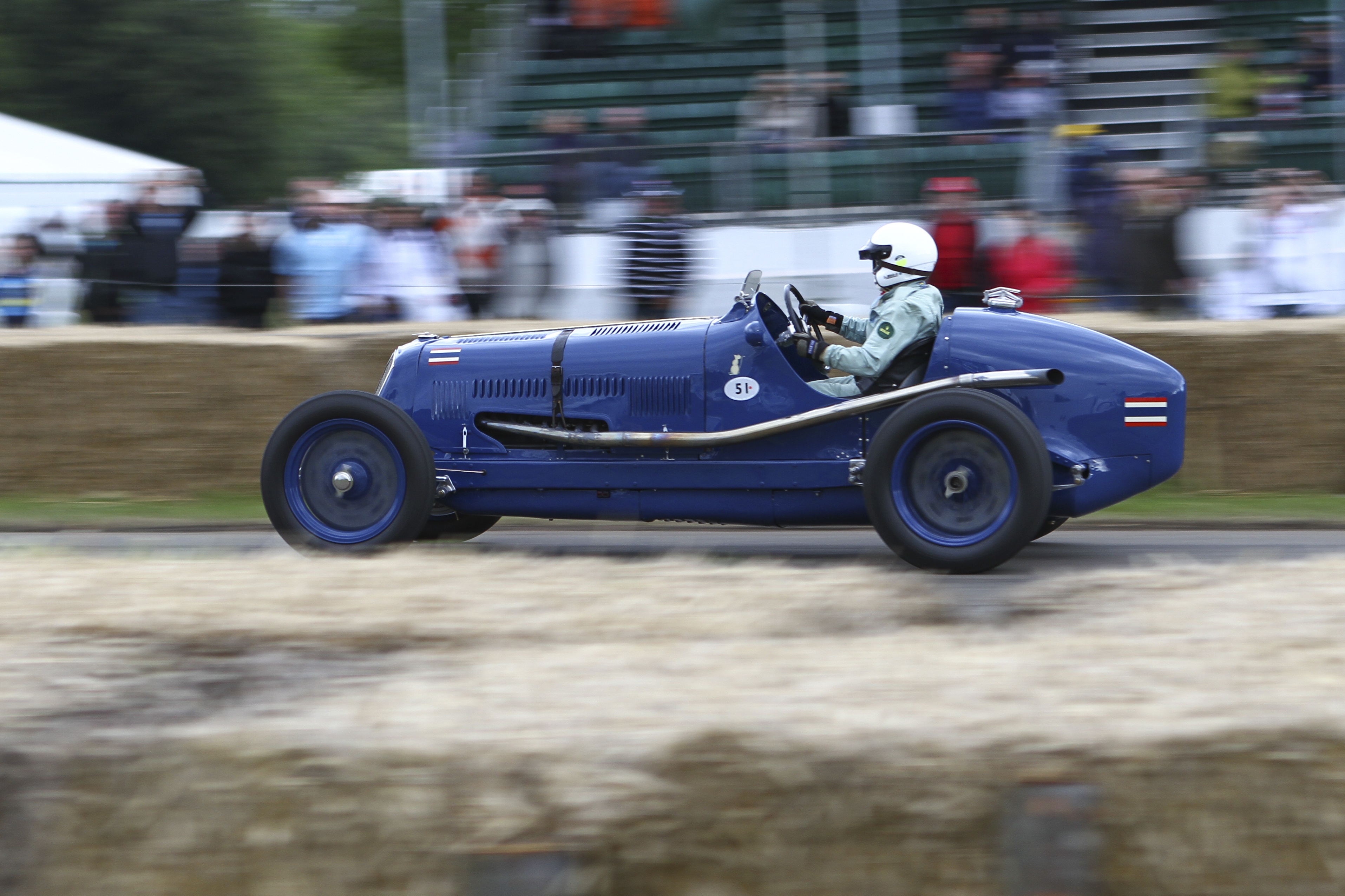 A Maserati 8CM racing and hillclimb car, formerly owned and driven by Prince Bira of Siam in the years prior to WWII, being demonstrated in Prince Bira's original livery at the Goodwood Festival of Speed in 2012.